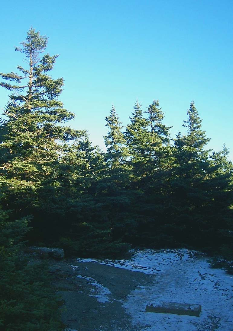 Photographed by Daniel Case on 2005-11-12